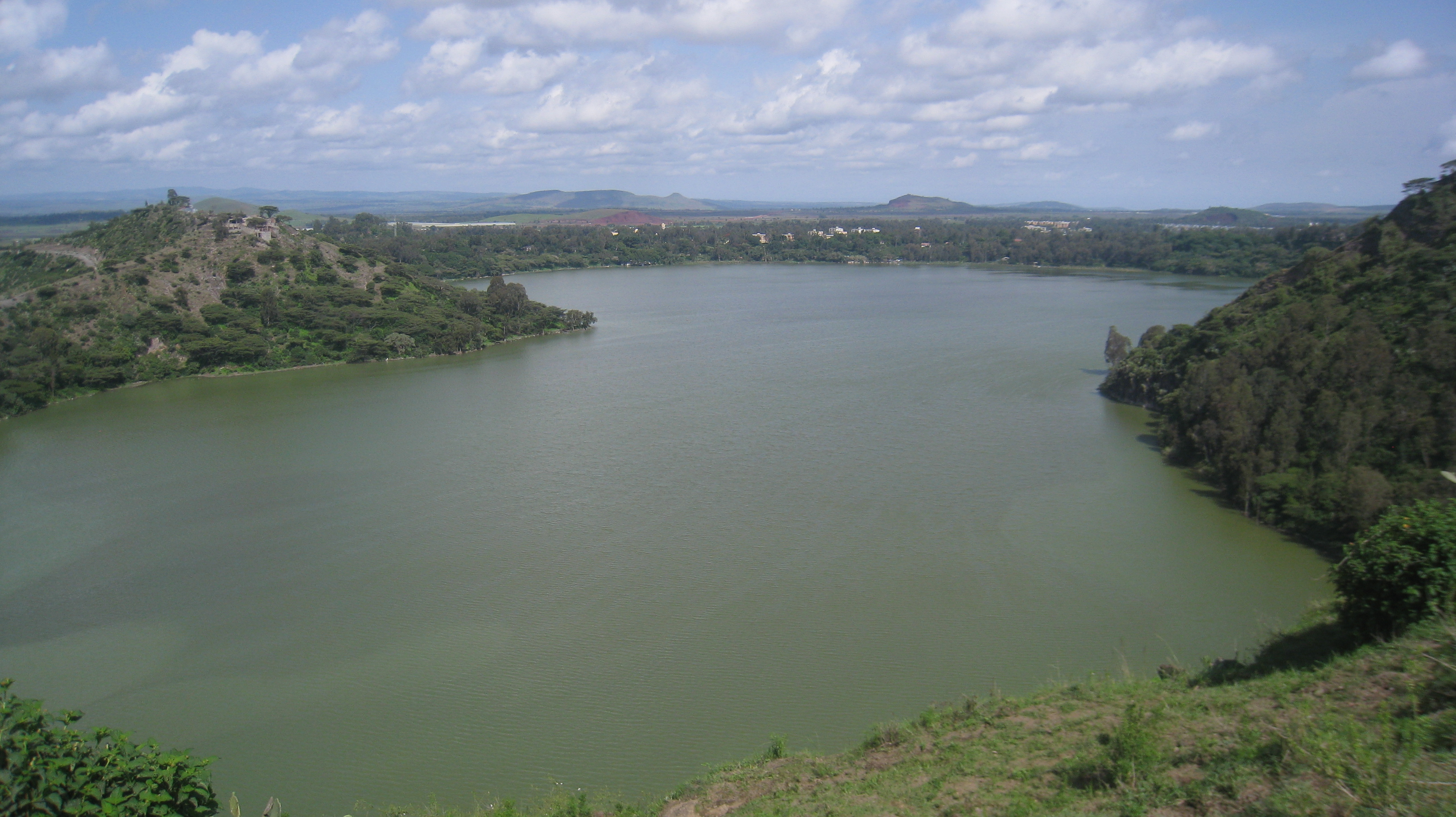 Lake Hora in Debra Zayt